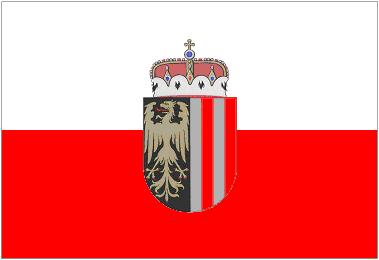 Description: Weiß-rot mit Wappen von Oberösterreich, gekrönt mit Erzherzogshut. Dienstflagge von Oberösterreich. White-red with coat of arms of Upper Austria, crowned with the archducal hat. Flag of the state of Upper Austria. Source: Coat of arms taken from the Bundeskanzleramt Österreichs. [1]. Modified and uploaded by Gryffindor 18:34, 2 November 2005 (UTC) raab; Was introduced to me as a type of "Brocoli". Is this correct? , Thank You!